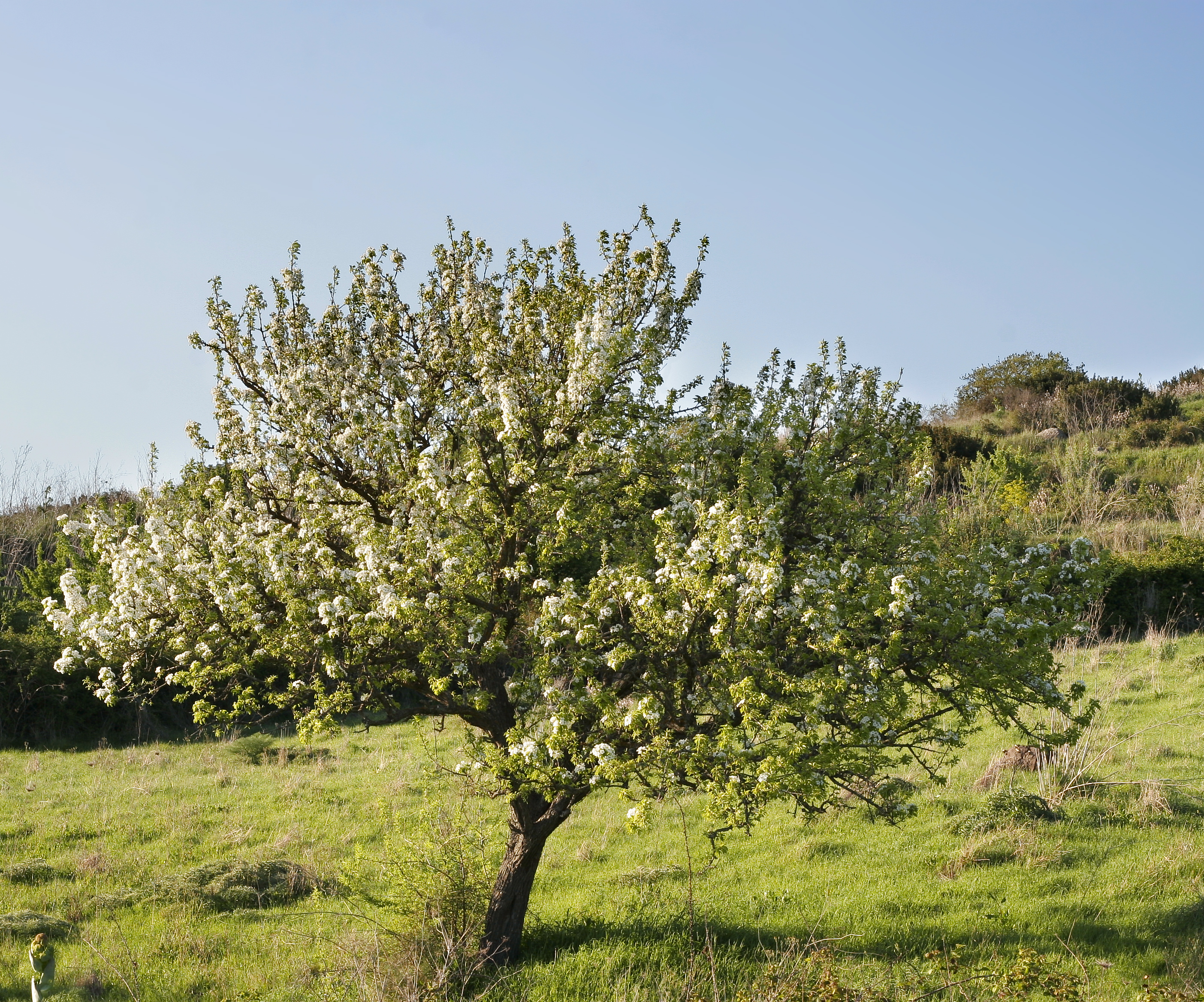 An Almond-leaf pear (Pyrus amygdaliformis) in Sardinia